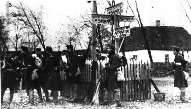 Croatian Royal Home Guard at Šabac/Mitrovica/Bogatić crossroads on December 2nd, 1914